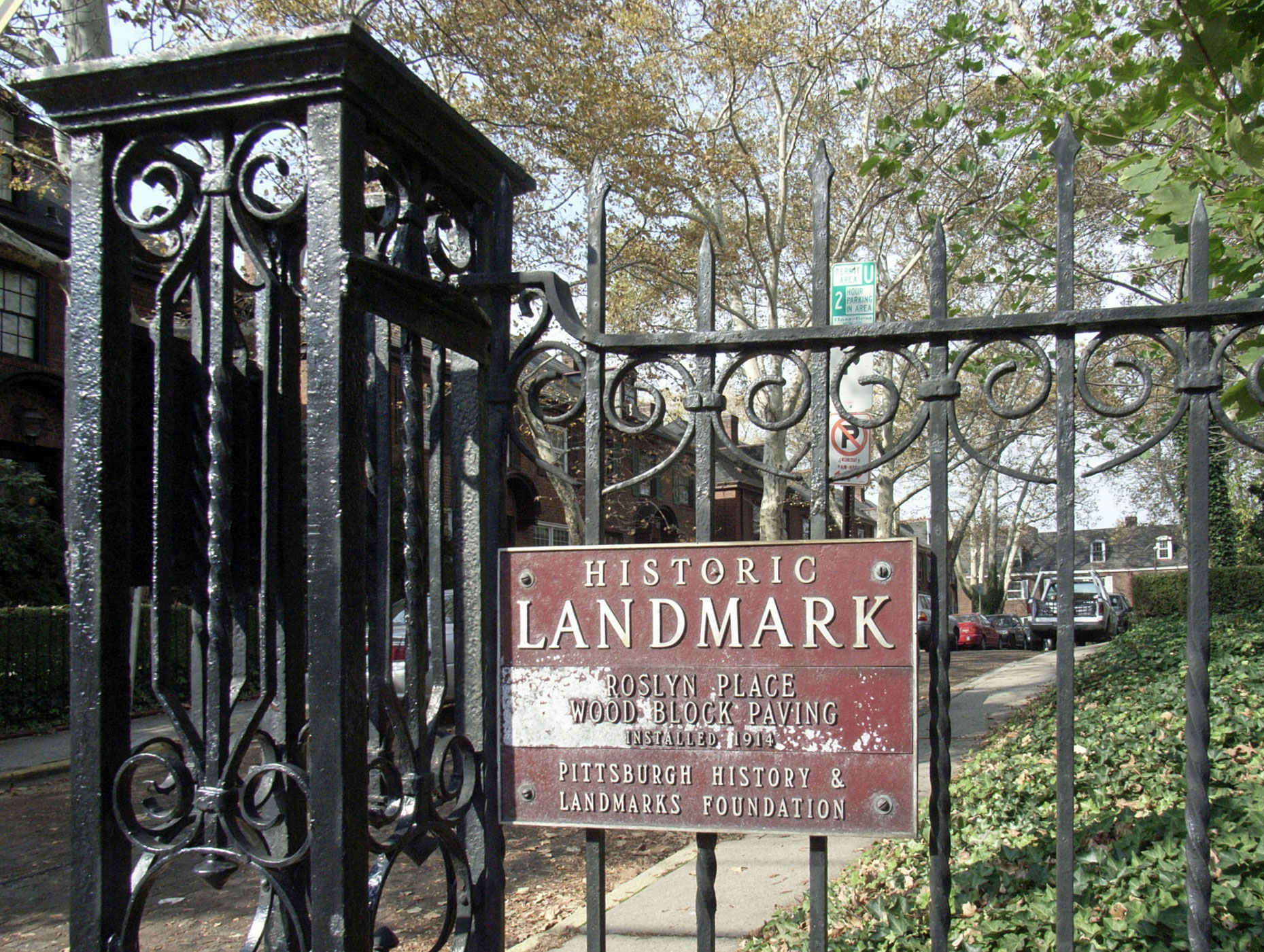 the paving is protected by law. I love it.